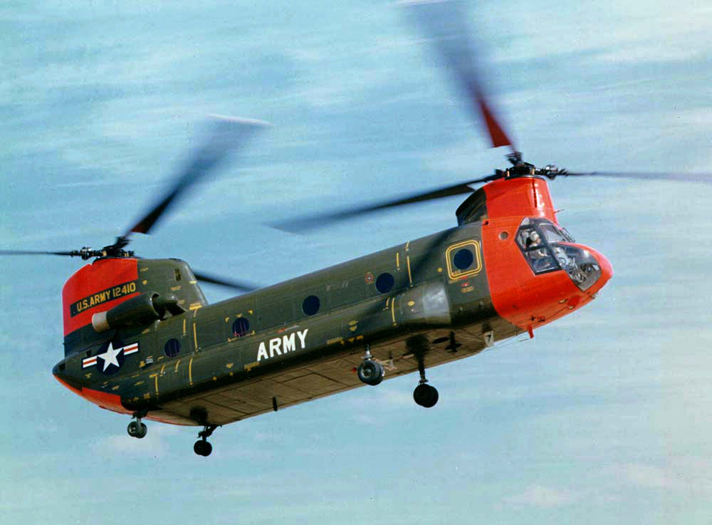 HC-1B in flight during testing and evaluation.